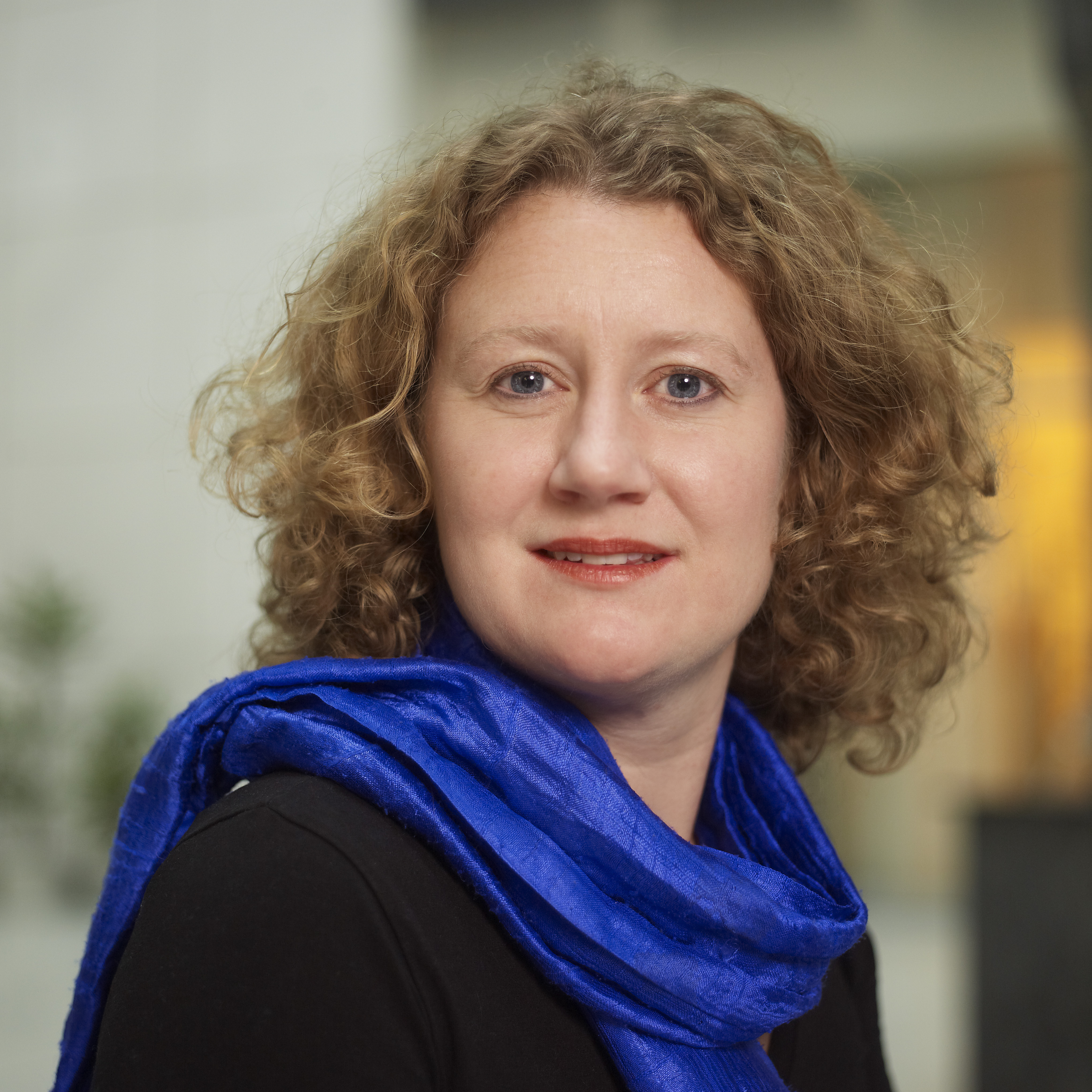 Portrait of Member of European Parliament Judith Sargentini (Dutch Greens)